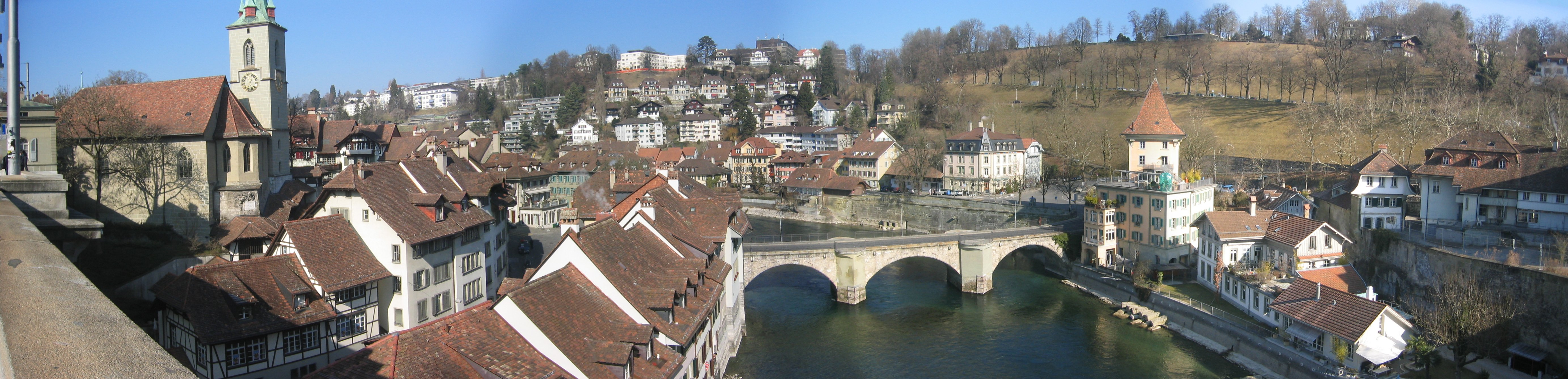 A panorama